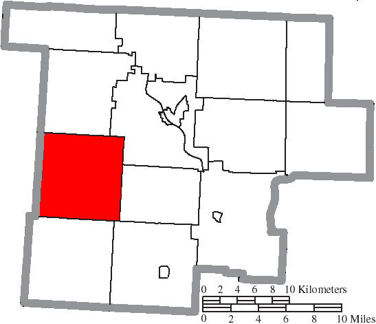 Map of the municipal and township boundaries of Morgan County, Ohio, United States, as of the 2000 census, with the location of Union Township highlighted. Township borders are shown only in unincorporated areas in order to differentiate incorporated and unincorporated areas more clearly.